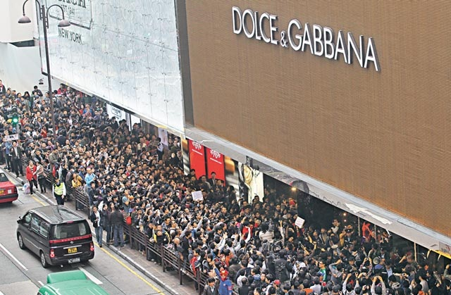 Protest at Dolce and Gabbana store in Hong Kong follows alleged ban on photography with racial discrimination.